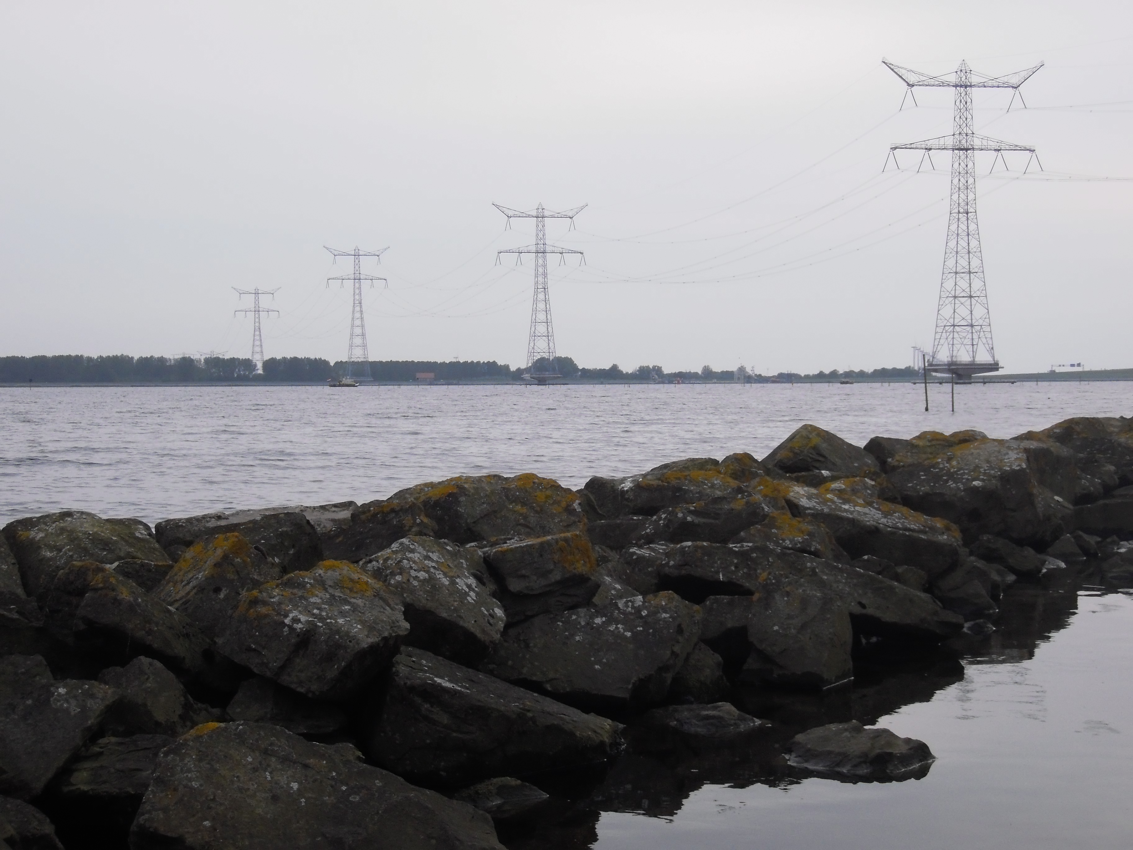 Ketelmeer, a lake in The Netherlands.